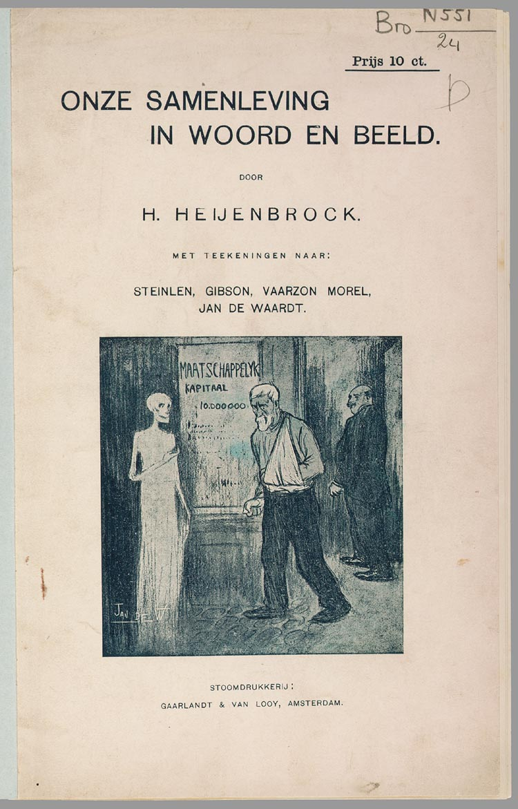 Pamphlet "Our society in words and pictures", by the painter Herman Heijenbrock; a publication free of copyright by the Dutch Labor movement in 1899